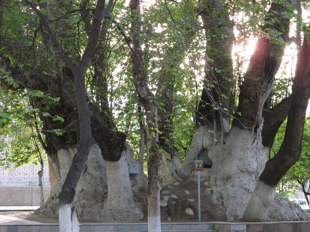 The biggest and oldest usbek plane-tree, in Vodil, Fergana district.